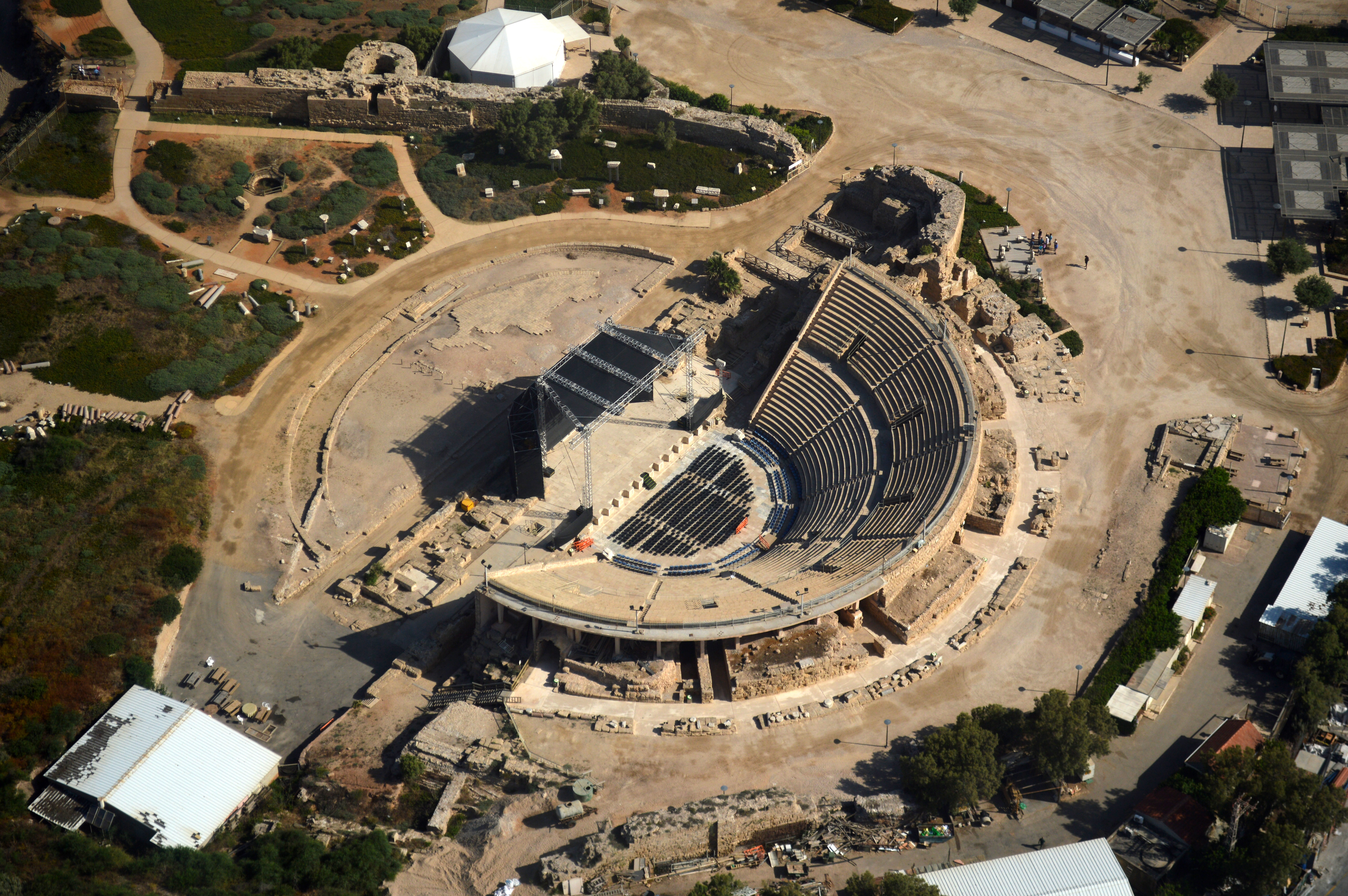 Aerial photo of Caesarea Maritima